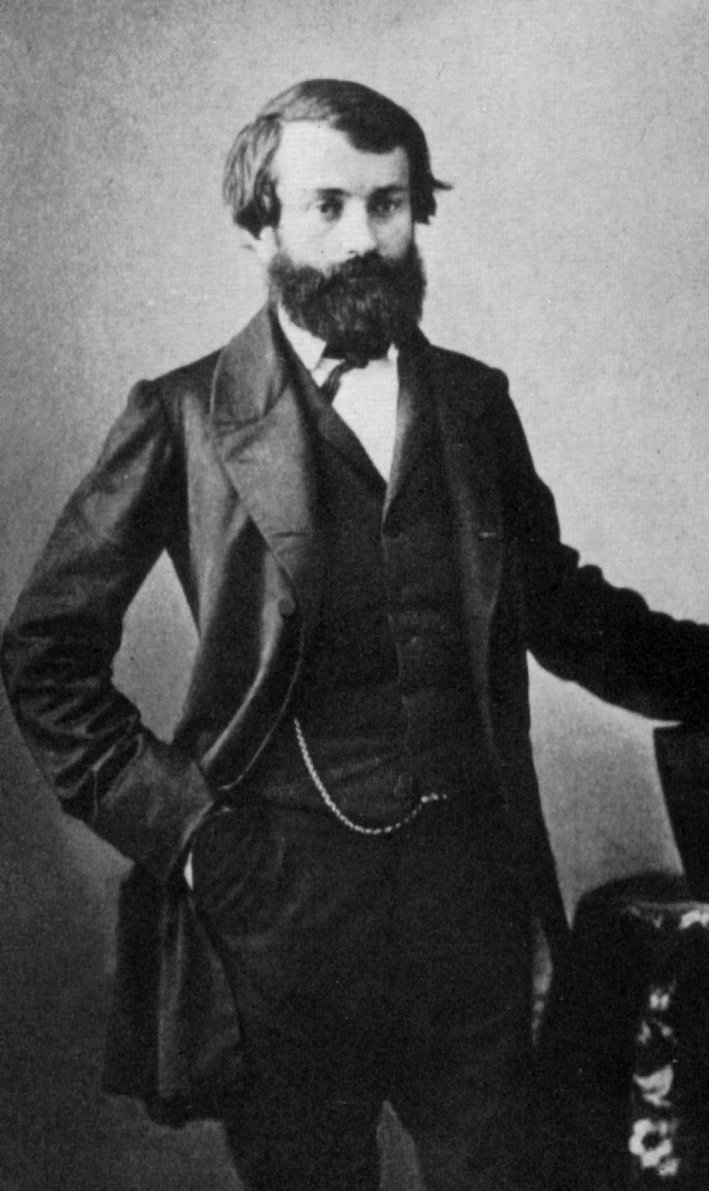 Quintino Sella (July 7, 1827 - March 14, 1884)